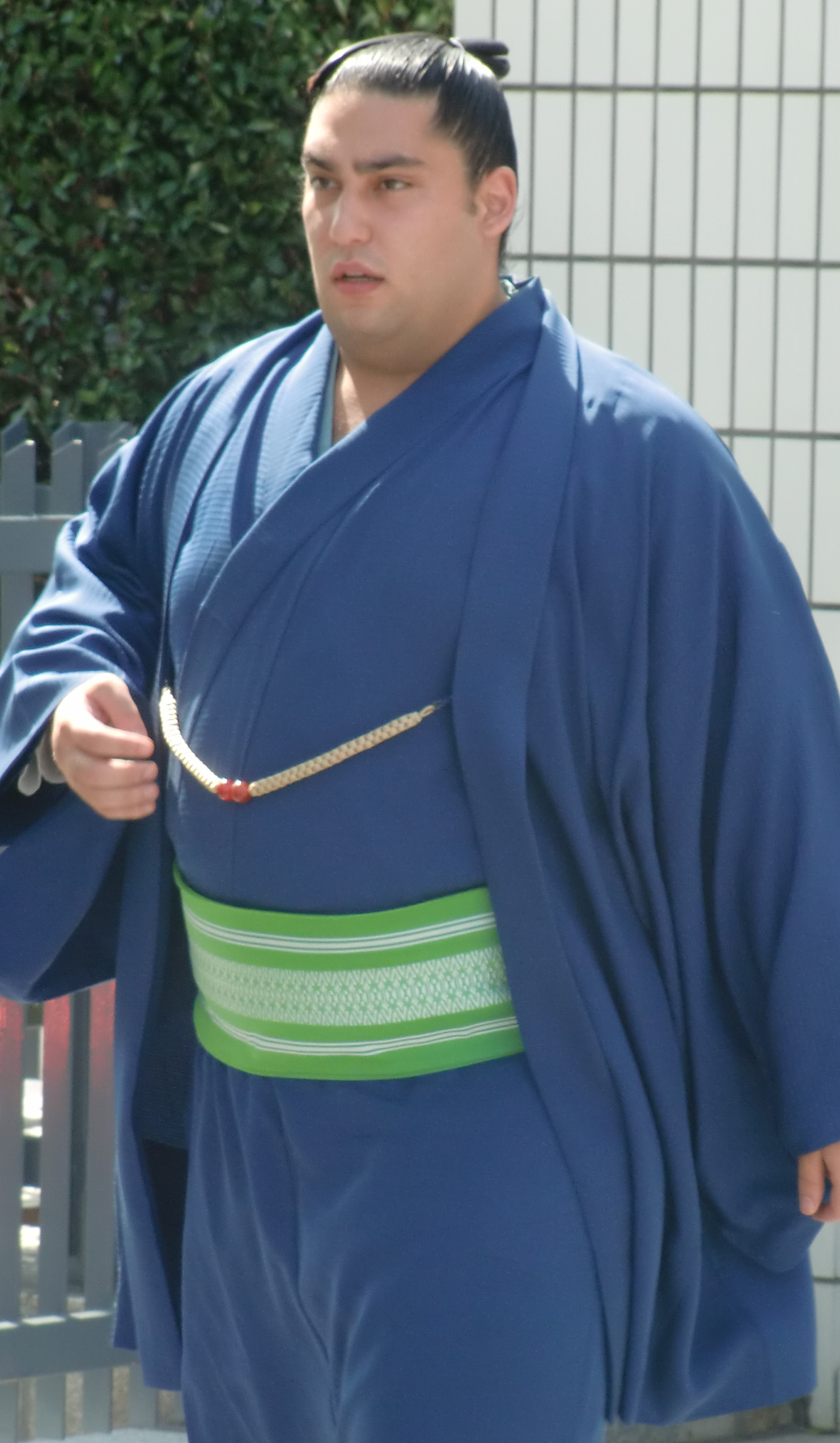 taken at 2010 Sep tournament